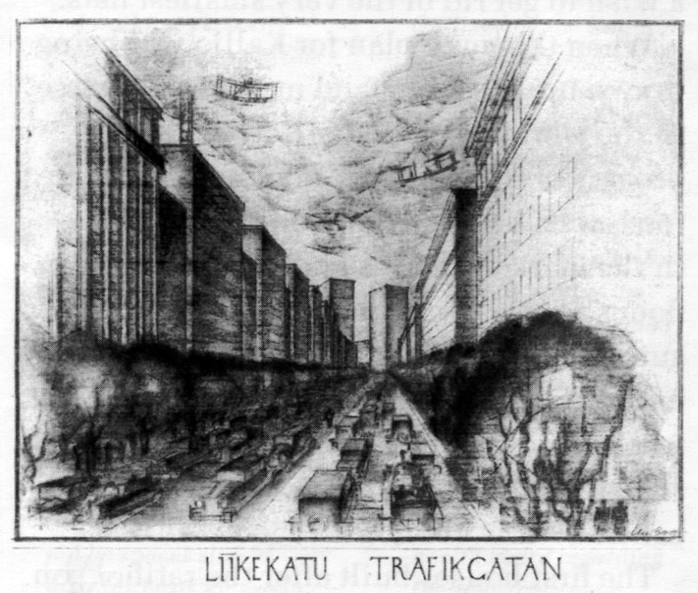 Old drawing of a street proposal in Helsinki from the beginning of the 20th century